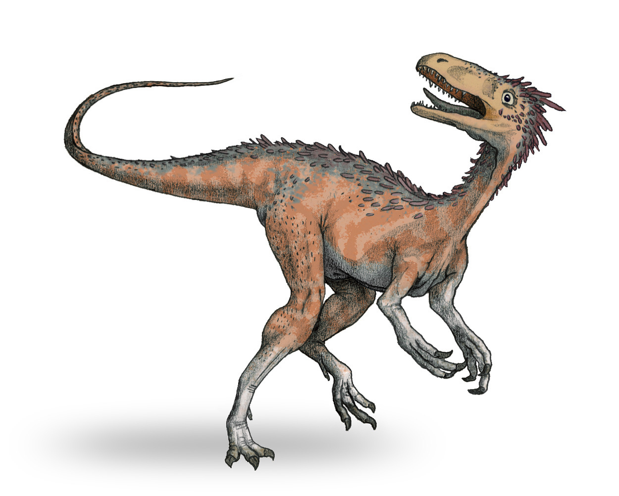 Huaxiagnathus